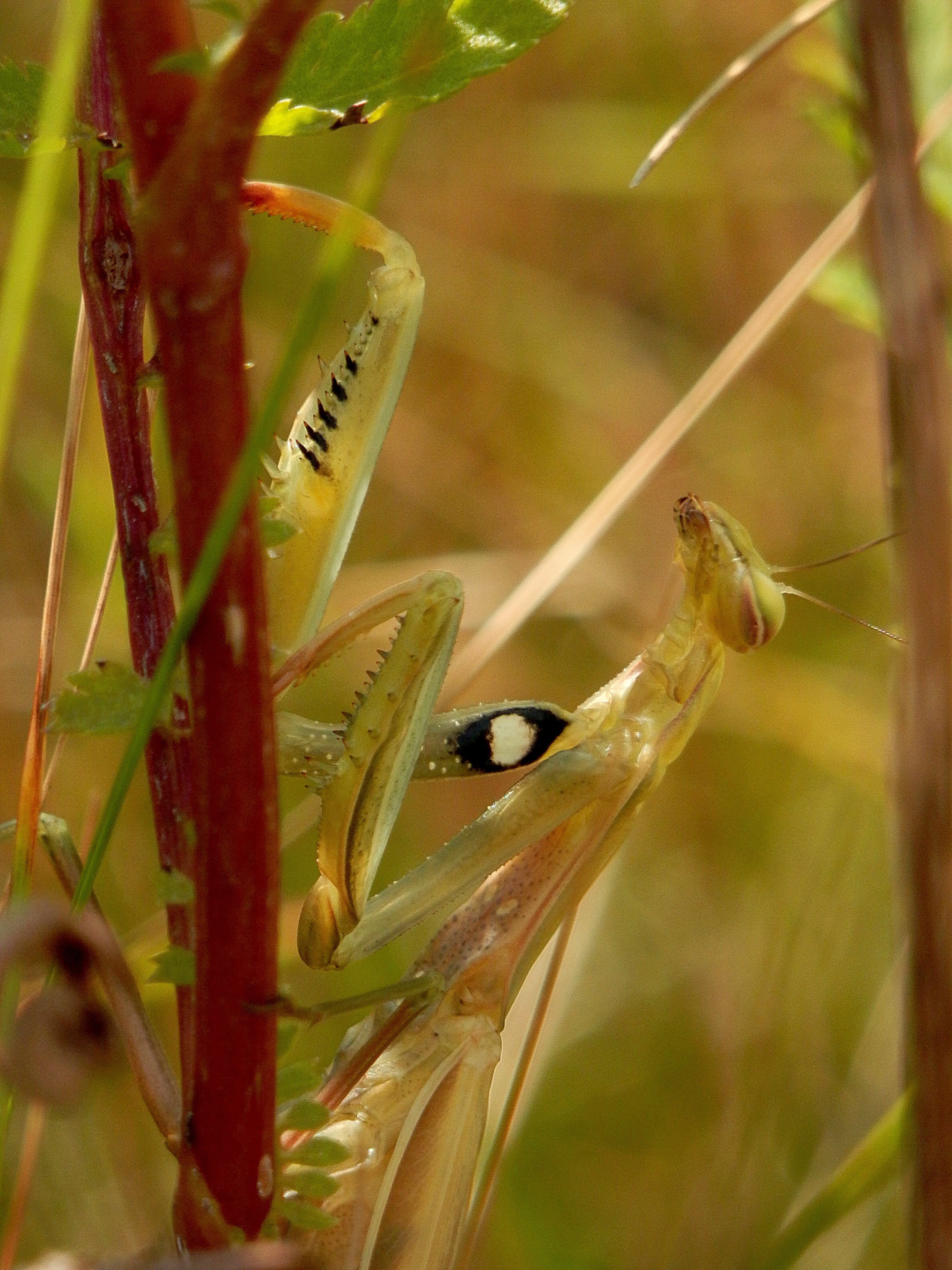 Praying Mantis (Mantis religiosa religiosa) in Guelph, Ontario, Canada.